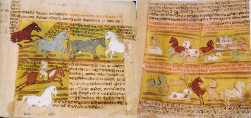 Manuscript pages from a Shalihotra, a traditional work on the care and riding of horses. Most such pages date from at least as early as the 1500's, C.E. Elizabeth Thelen, "Riding through Change: History, Horses and the Reconstruction of Tradition in Rajasthan", p. 37. D Space, University of Washington.